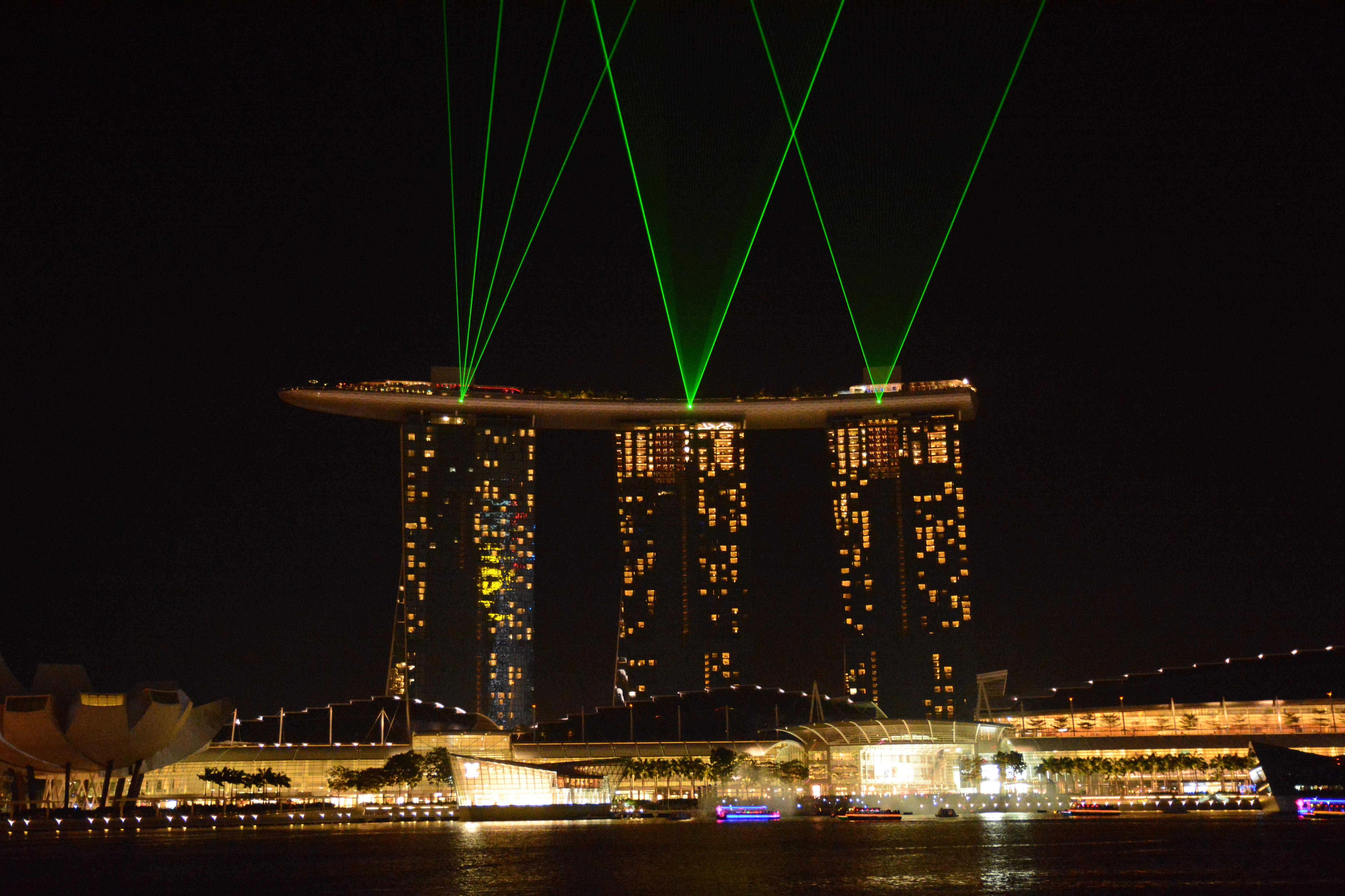 A laser show at Marina Bay Sands, Singapore.